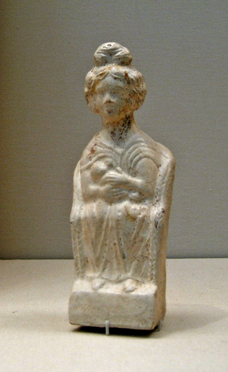 Pipeclay figurine of a mother-goddess from a cemetery at Welwyn Grange, Hertfordshire. The figure sits in a wicker chair and is suckling a baby. Roman Britain, 2nd century AD. Ht.14.5 cm. British Museum, London. PE 1981.11-2.1